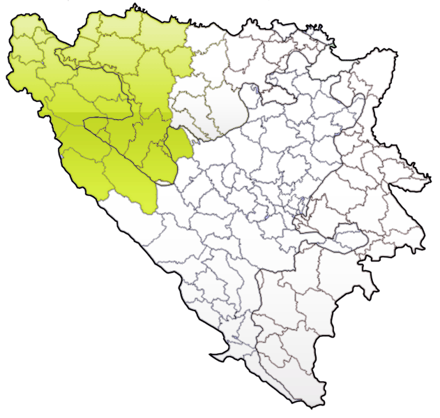 Krajina region of Bosnia and Herzegovina